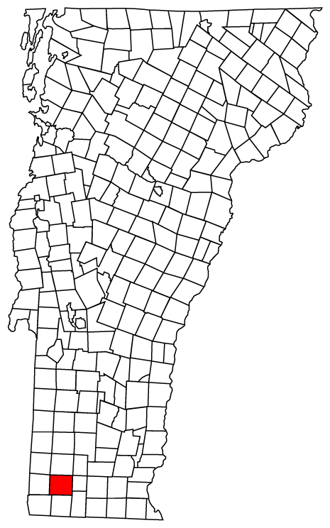 Map of Vermont towns with Woodford highlighted